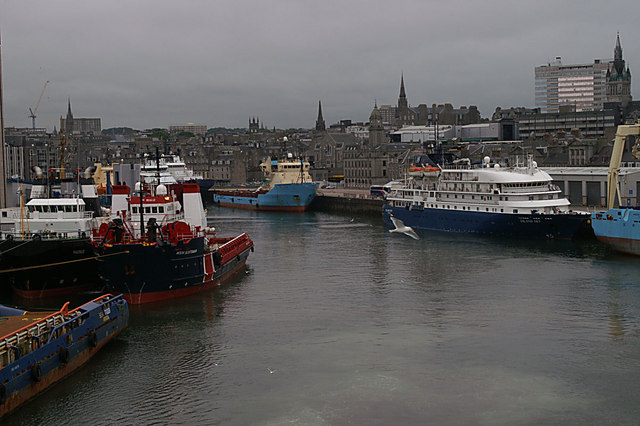 Aberdeen Harbour